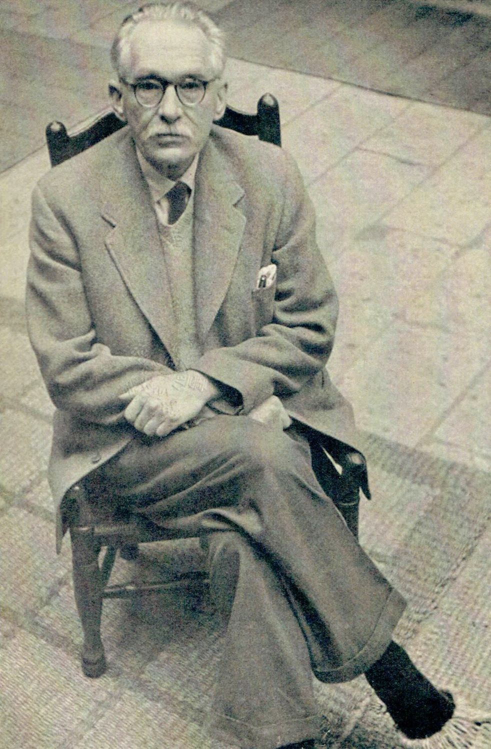 Bernard Leech from Asahi Shimbun "Asahi Camera" Vol. 38, No. 6 (1953)